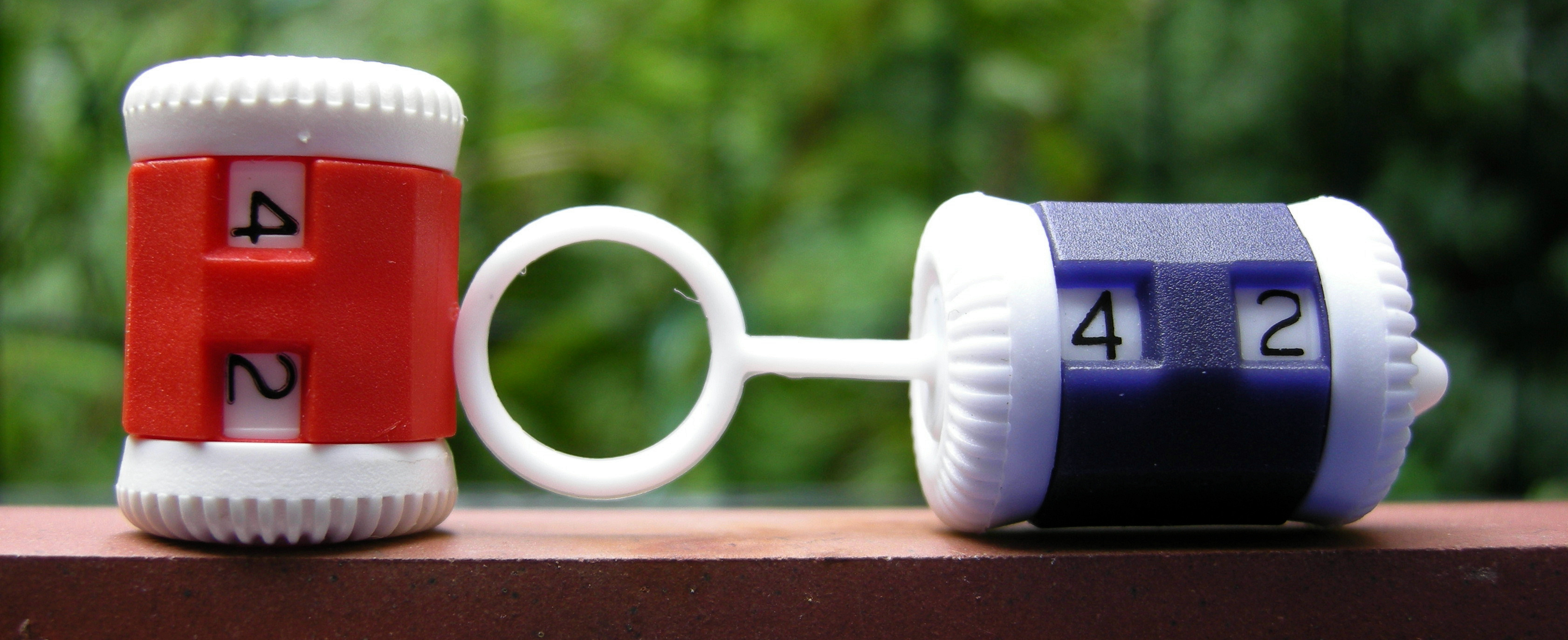 Wrights Boye and Prym row counters manufactured 2000-2010. The left one is an on-needle barrel counter, and the right hand one is a stitch-marker counter, labelled on the packaging as a Universal Rotally.